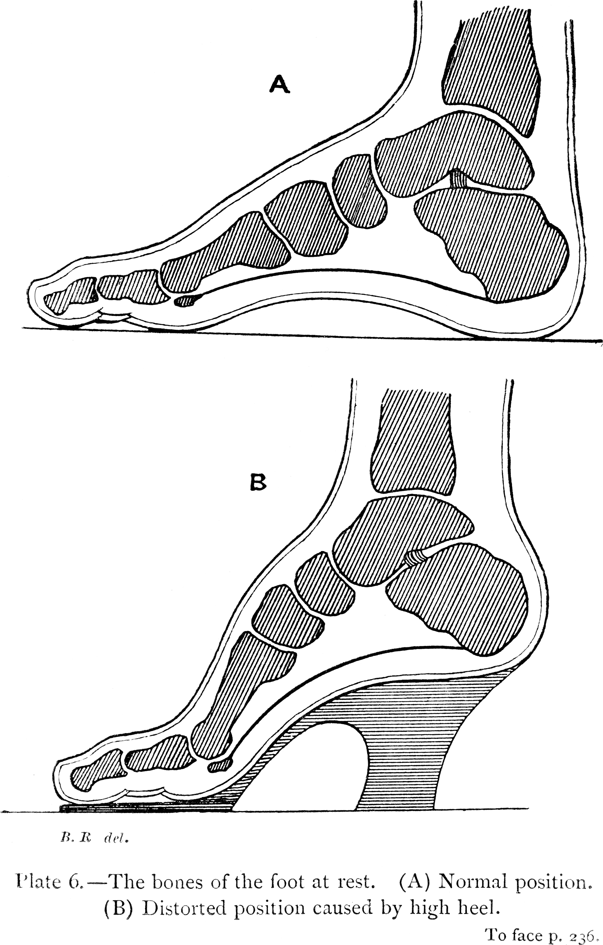 The bones of the foot at rest. (A) Normal position. (B) Distorted position caused by high heel.